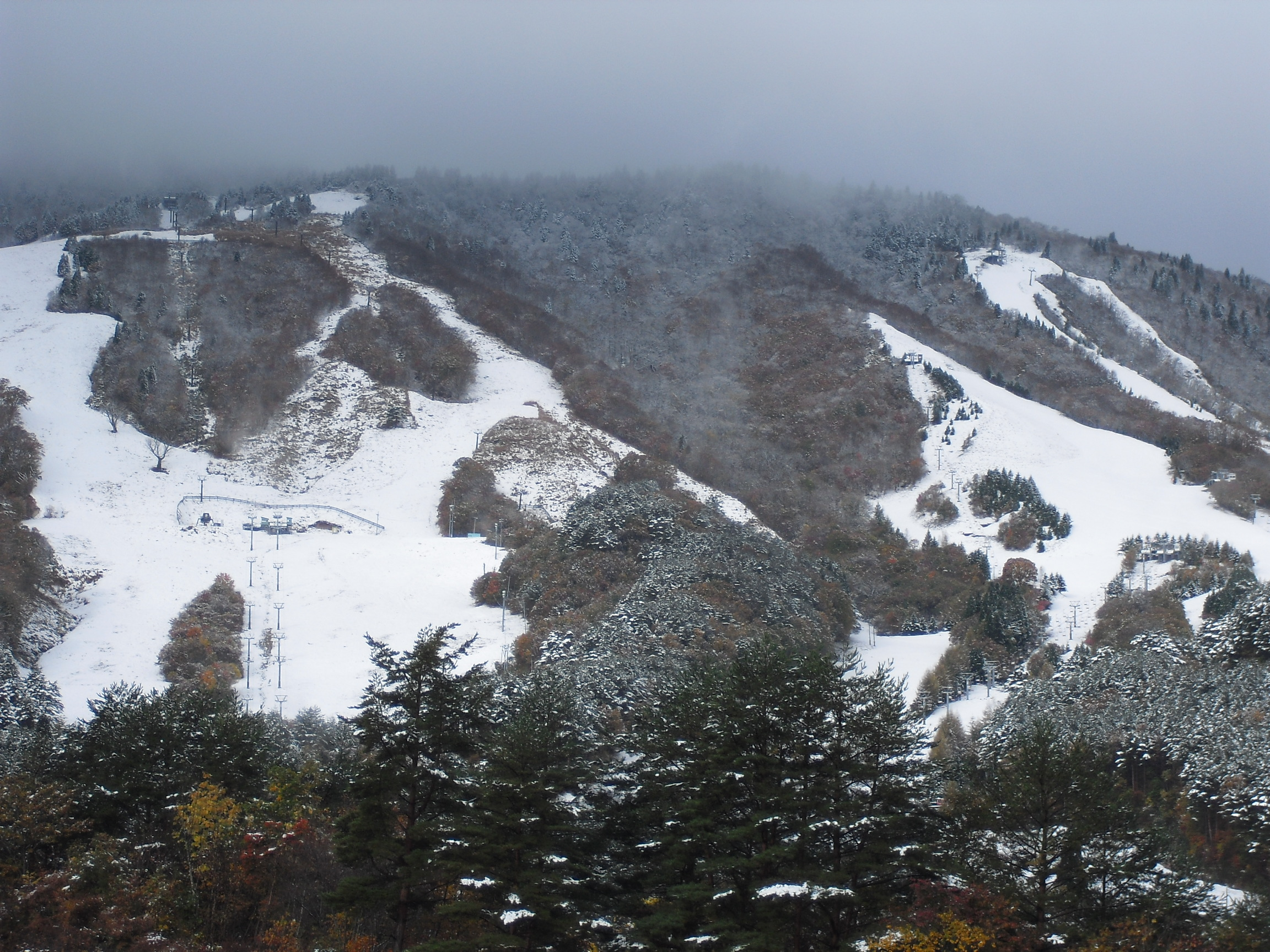 Osorakan ski resort